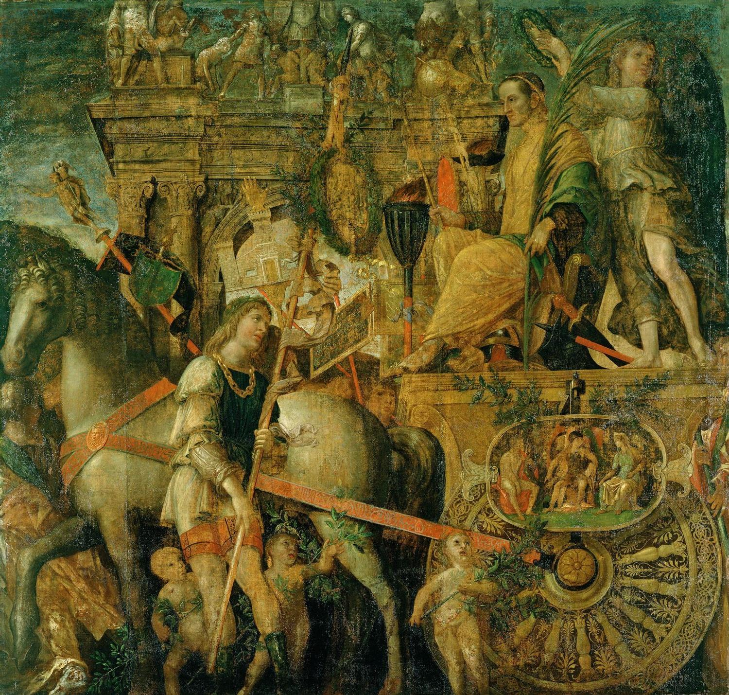 detail: Julius Caesar on his triumphal chariot